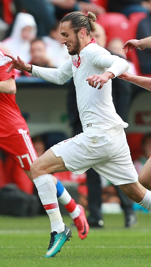 Yusuf Yazıcı